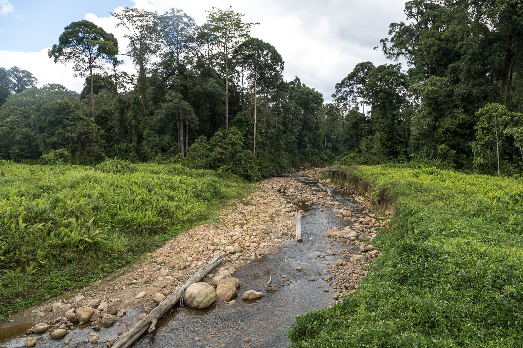 District Sapulut, Sabah: Unknown Tributary of Sungai Kuamut, next to the abandonned Saw Mill at Mile 41 of Kalabakan-Sapulot-Road in the direct neighbourhood to Maliau Basin